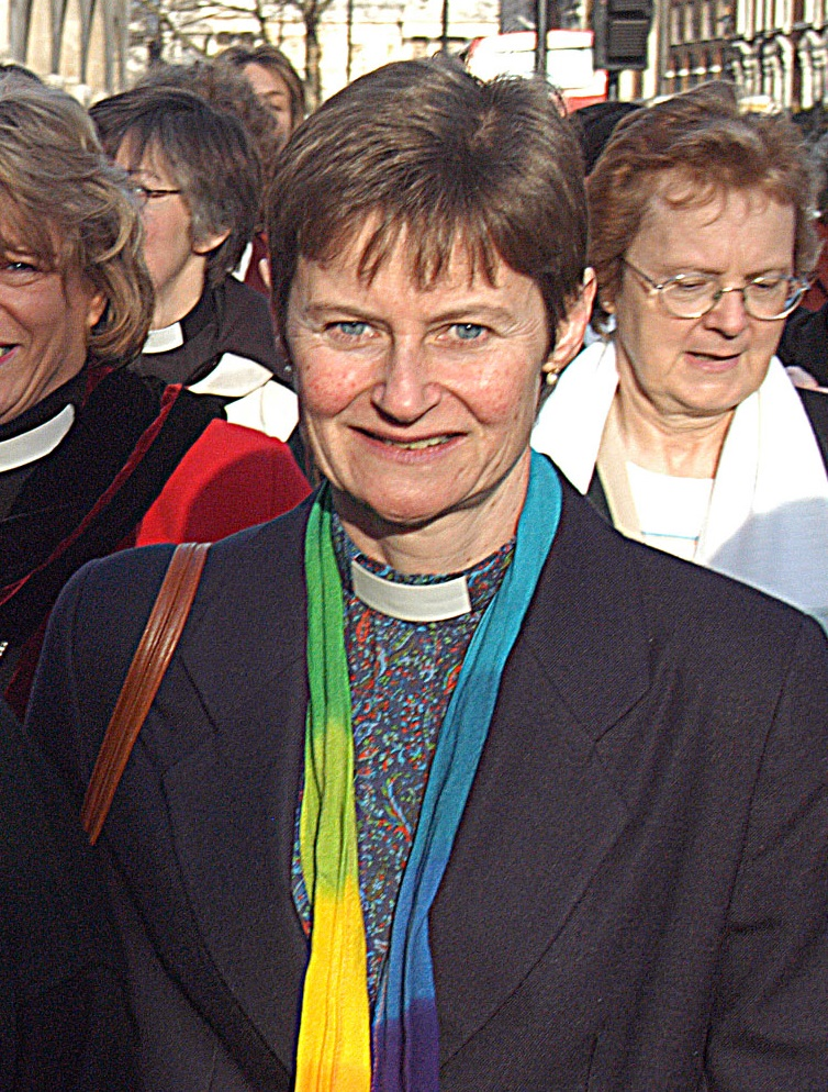 Olivia Graham, then Team Vicar of Burnham